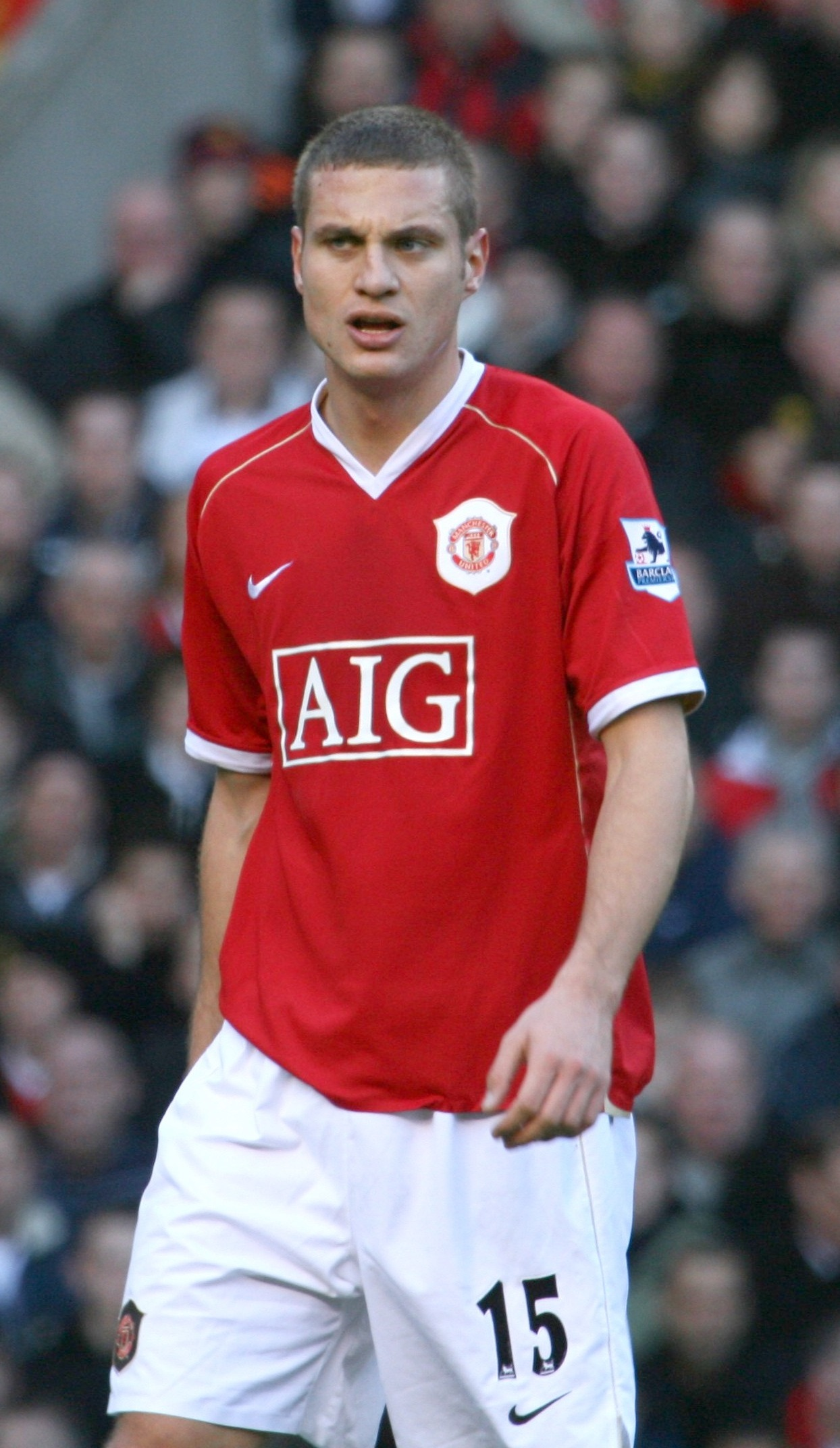 Nemanja Vidić playing for Manchester United F.C.